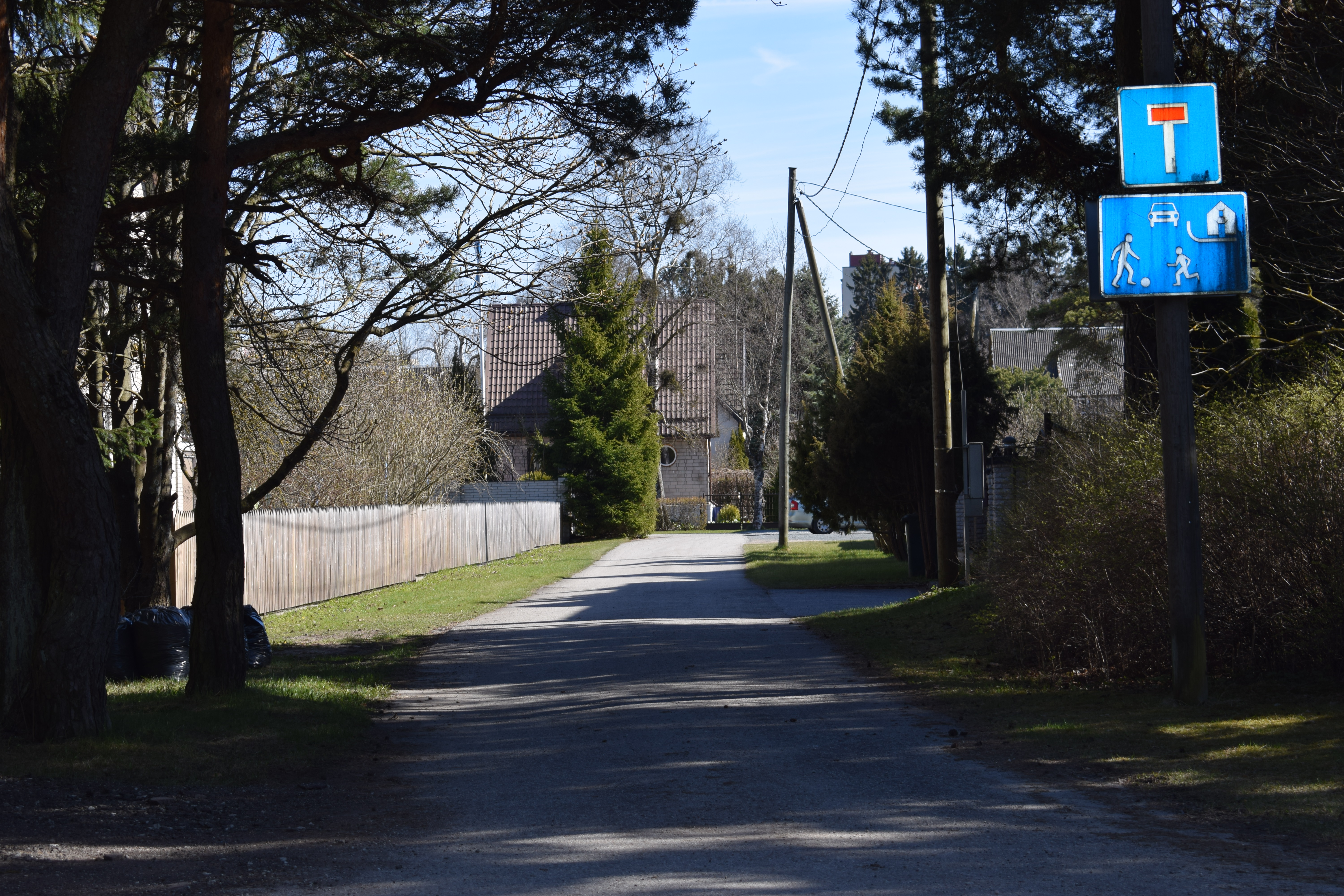 Raudosja street